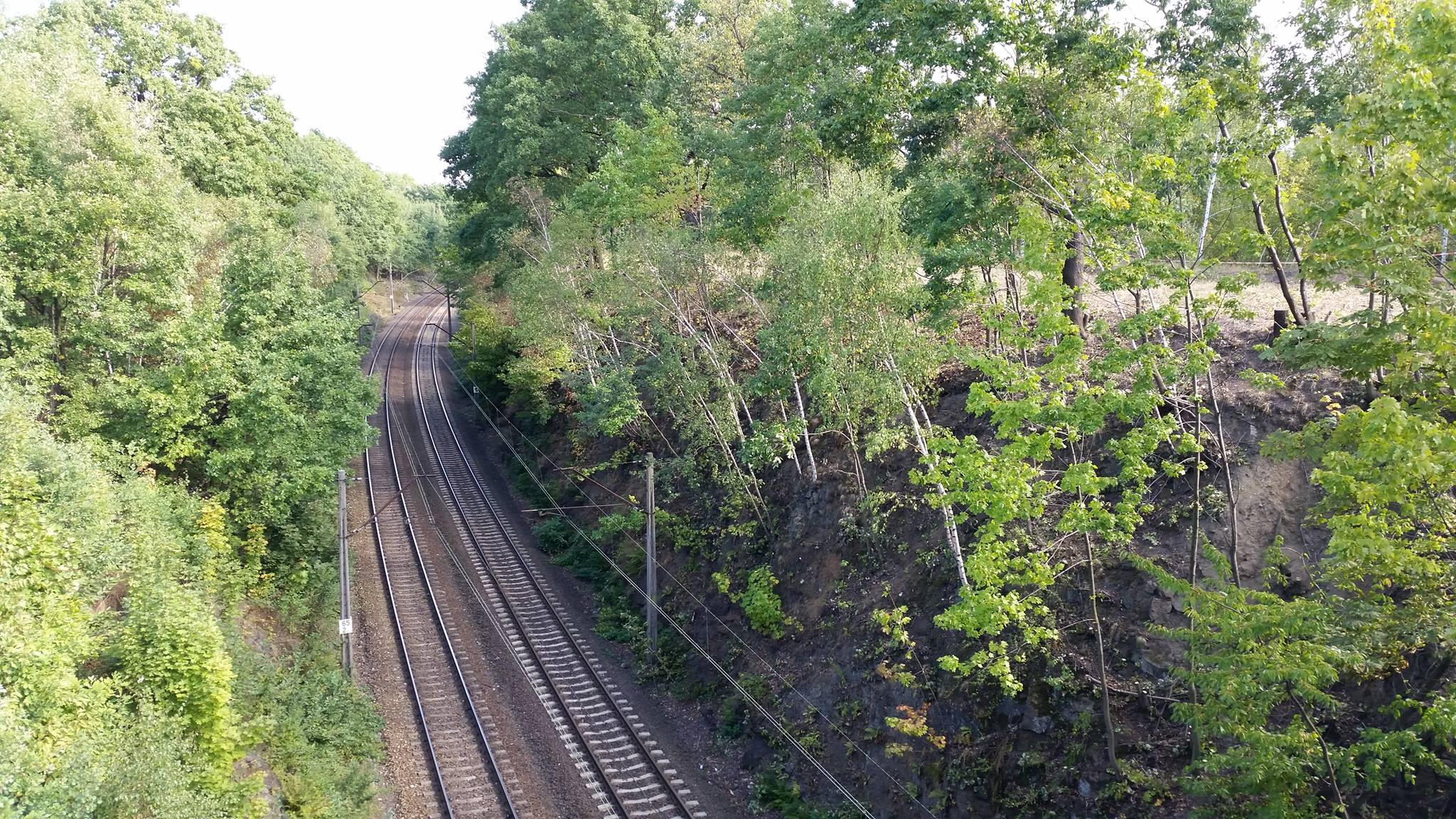 Golden Train in Wałbrzych